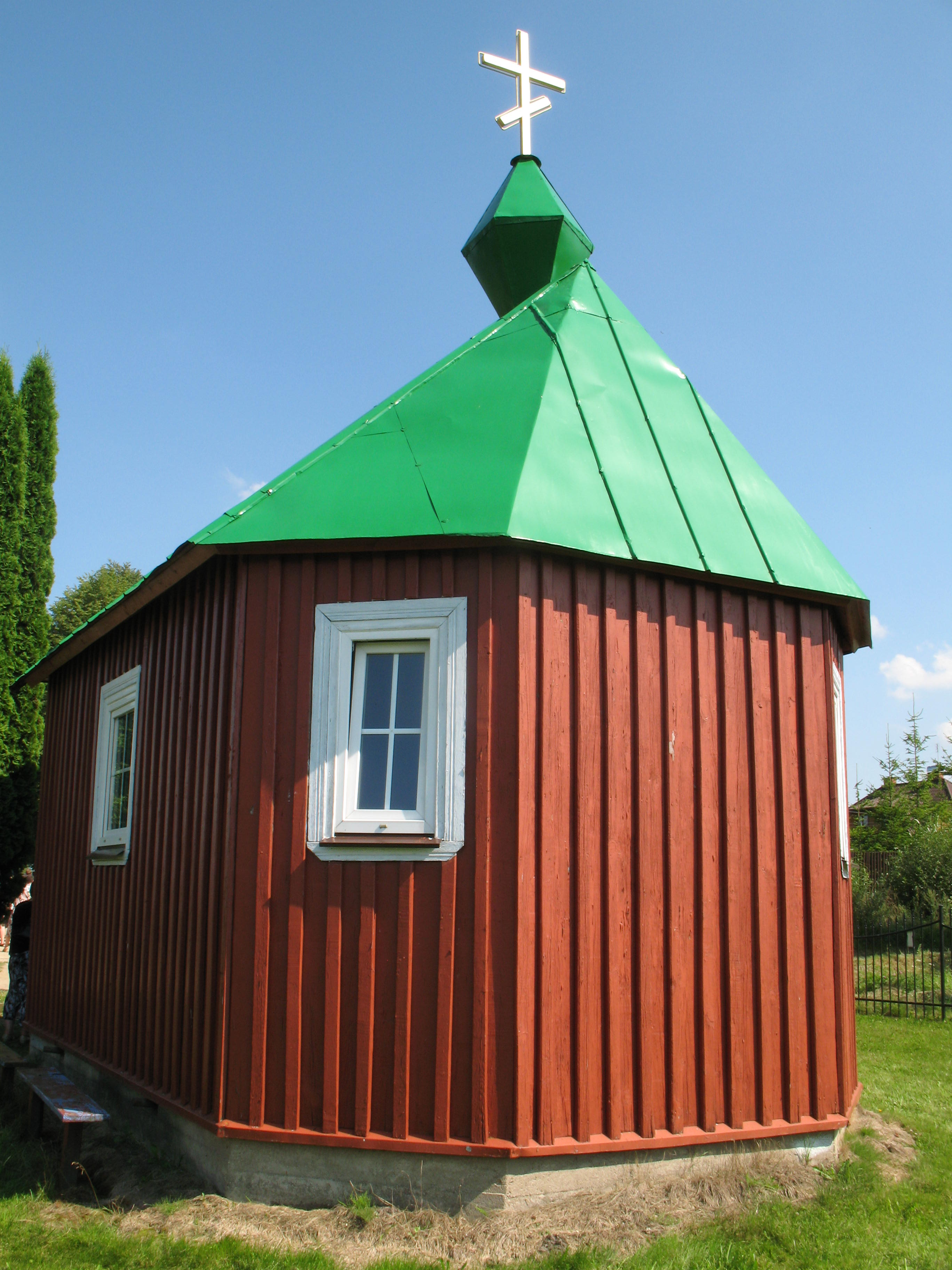 Kaplica w Socach, zdjęcie od strony ołtarza.